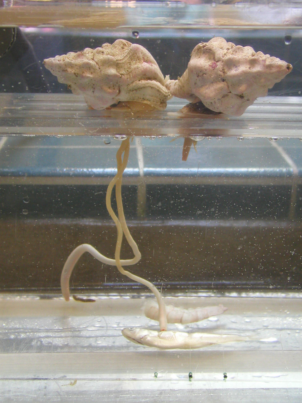 Kellet's whelks (Kelletia kelletii) at Monterey Bay Aquarium. One is feeding on a dead fish using a long, prehensile proboscis.